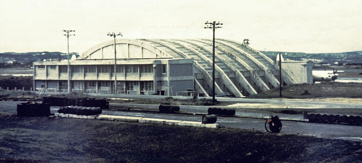 Agent White at Futenma 1970.